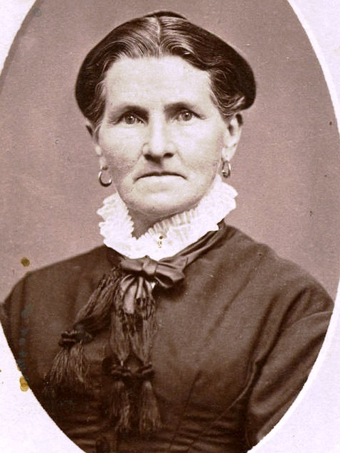 Photo of Lucy Brown Smith, wife of Elias Smith and early leaders in Latter Day Saint movement.